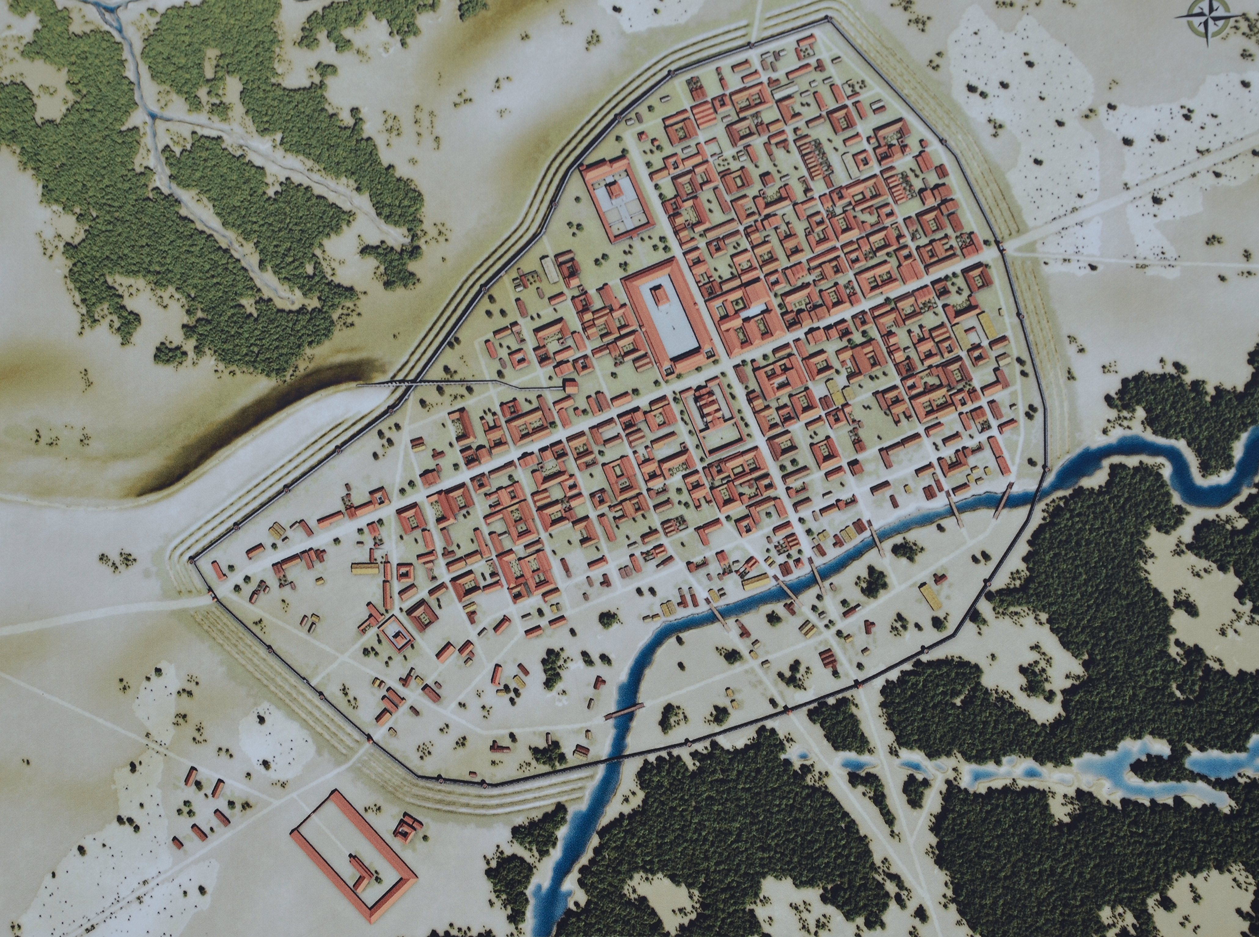 Reconstruction of the ancient Roman city of Atuatuca Tungrorum around 150 AD (by Ugo Janssens), Tongeren, Belgium.